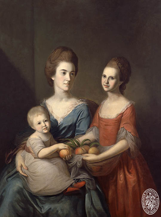 Oil on Canvas by Charles Wilson Peale c. 1772-1775 Mrs. Samuel Chase (Ann Baldwin) 1743-1778 daughters - Matilda Chase and Ann Chase Anne Baldwin Chase, 1743 - 1778? Anne Chase, 1771 - 1852 Matilda Chase Ridgely, 1763 - 1835 Item ID: 1892.2.2 Creator: Peale, Charles Willson, 1741-1827 Description: Full-length portrait shows Anne Baldwin Chase (Mrs. Samuel Chase) in a blue dress holding infant daughter, Anne Chase, who wears a white dress and red shoes. Another of Chase's daughters, Matilda Chase, is shown at right holding peaches in her red gown, and the infant also holds a peach. There is a column at left, and a green-brown background. Oil on canvas by Charles Willson Peale. Date of Original: 1772-1784 Collection: Museum Department